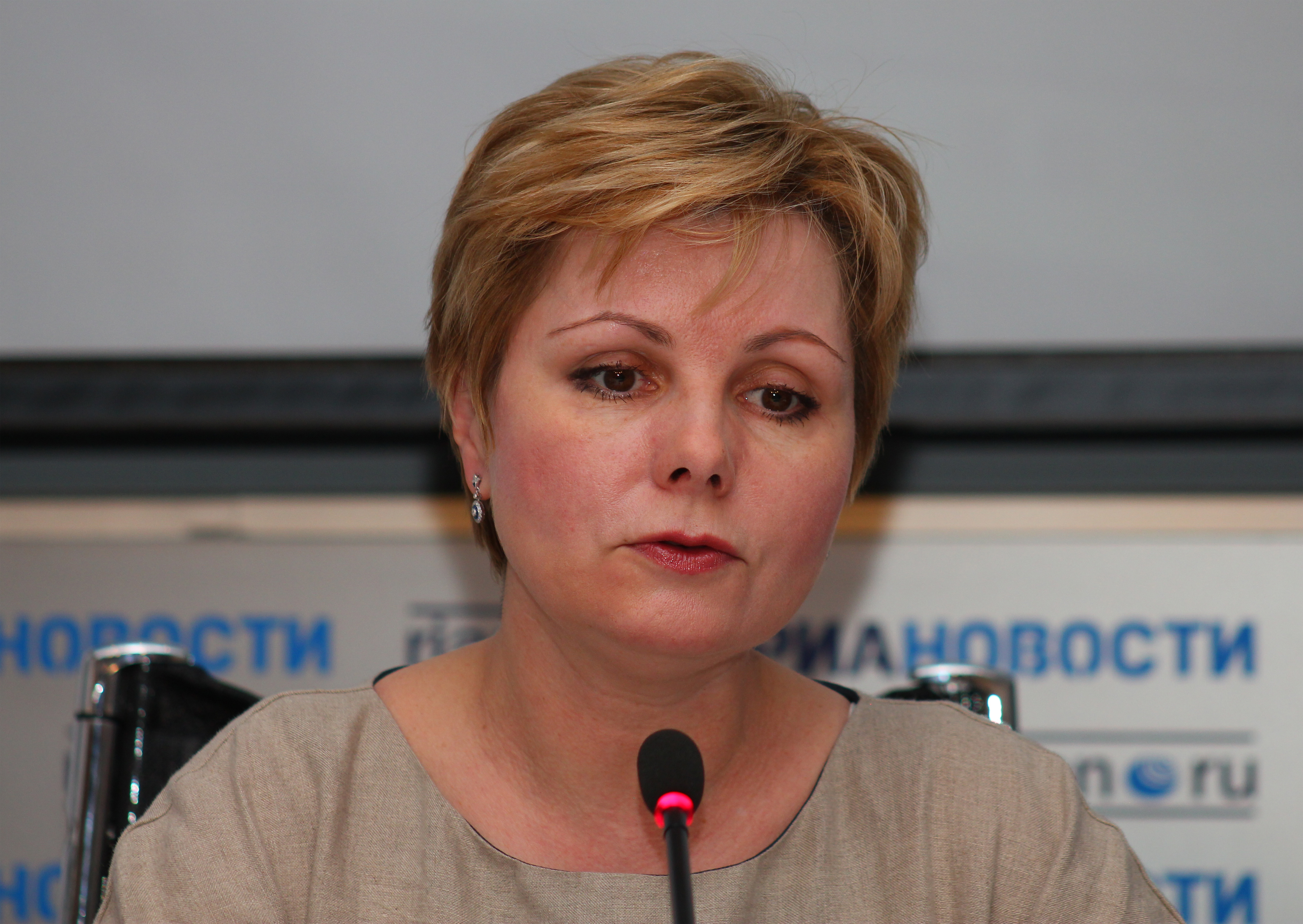 The Moscow Kremlin Museum director & a daughter of Yuri Gagarin Elena Gagarina in Moscow